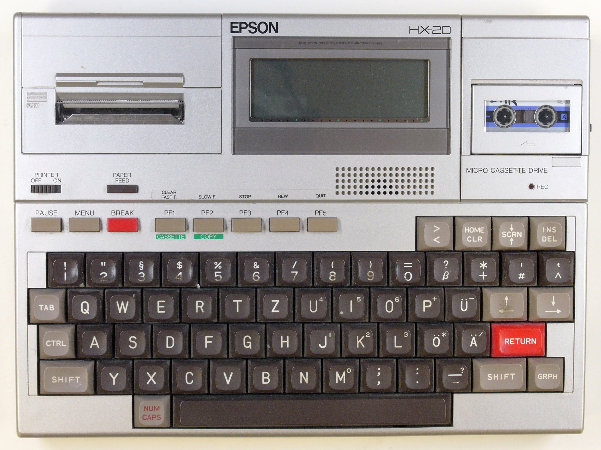 Epson HX 20